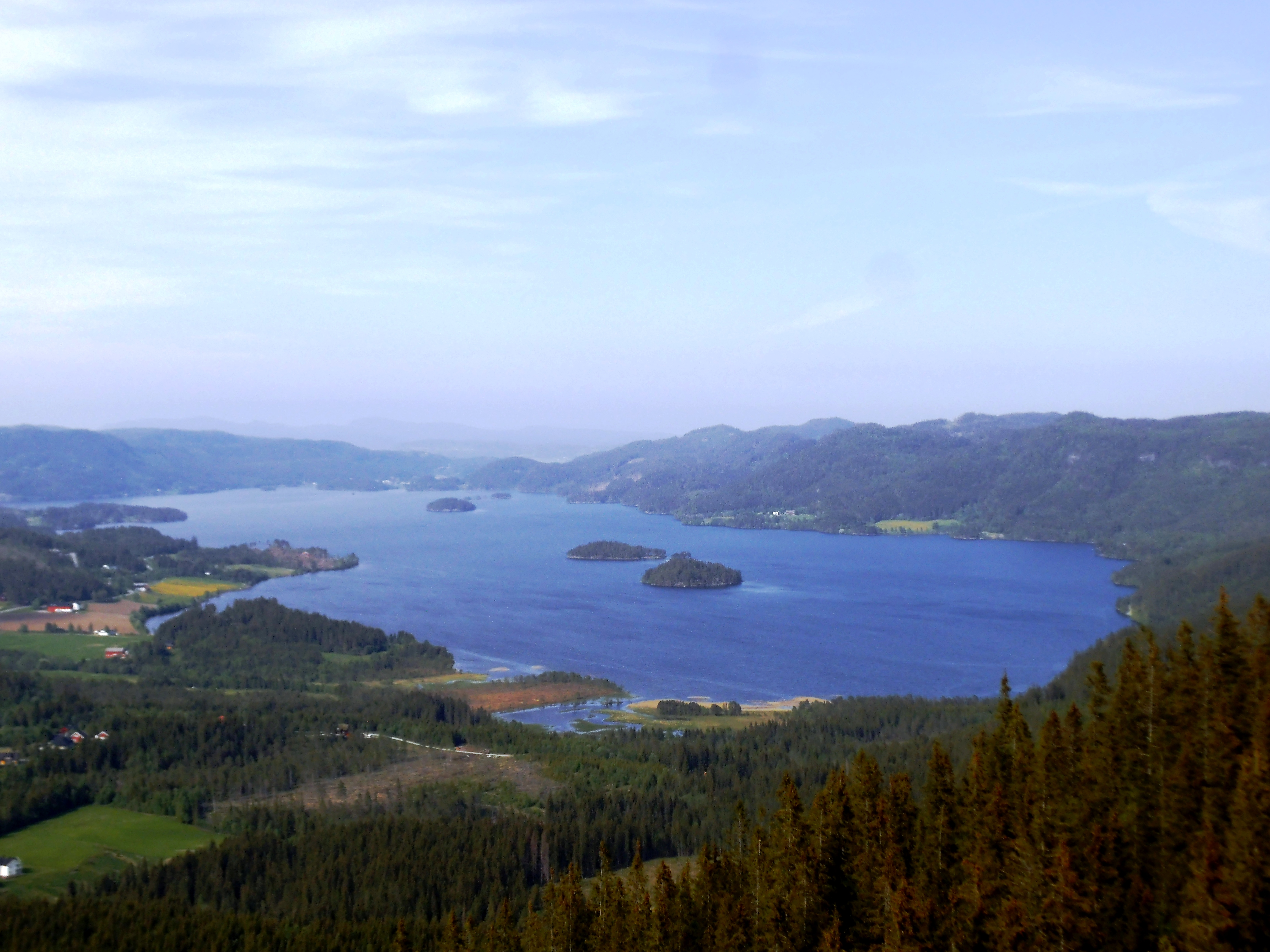 Ånøya, a lake located in Korsvegen, Melhus. Seen from Ramberget.